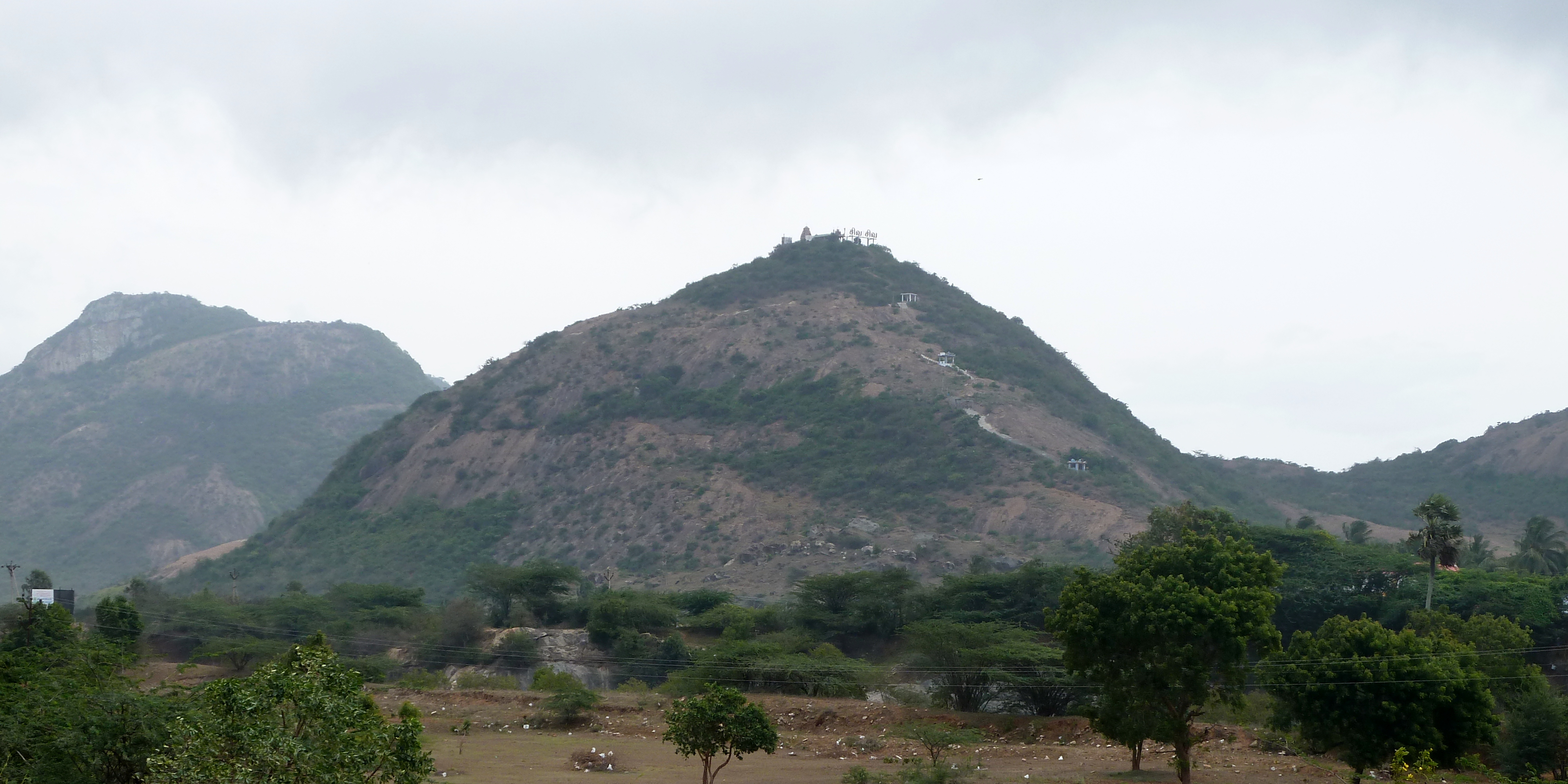 This Temple is in Madukkarai, Coimbatore